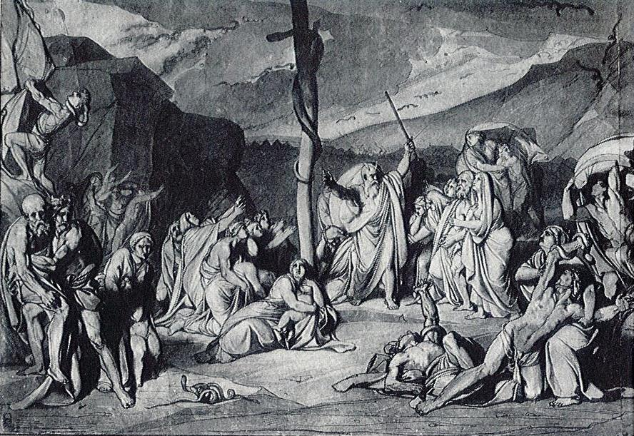 Study for "Brazen Serpent" (Fyodor Bruni, circa 1828)